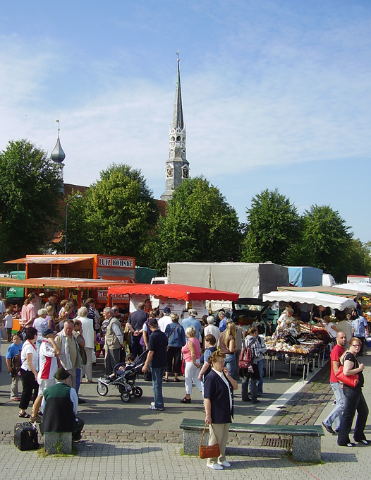 Heide weekly market